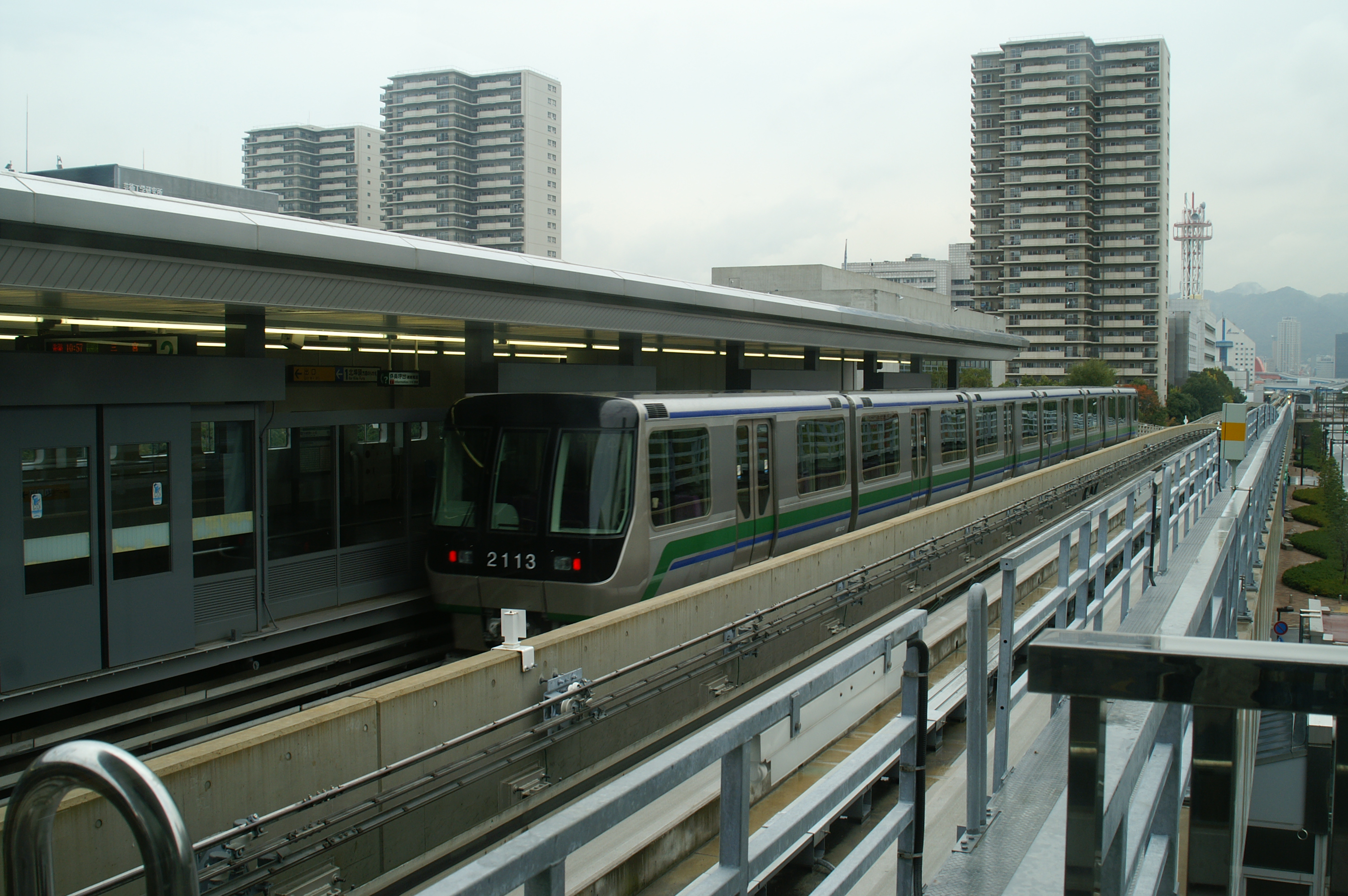 Kobe New Transit Port Liner Shimin Hiroba Station platform for Sannomiya